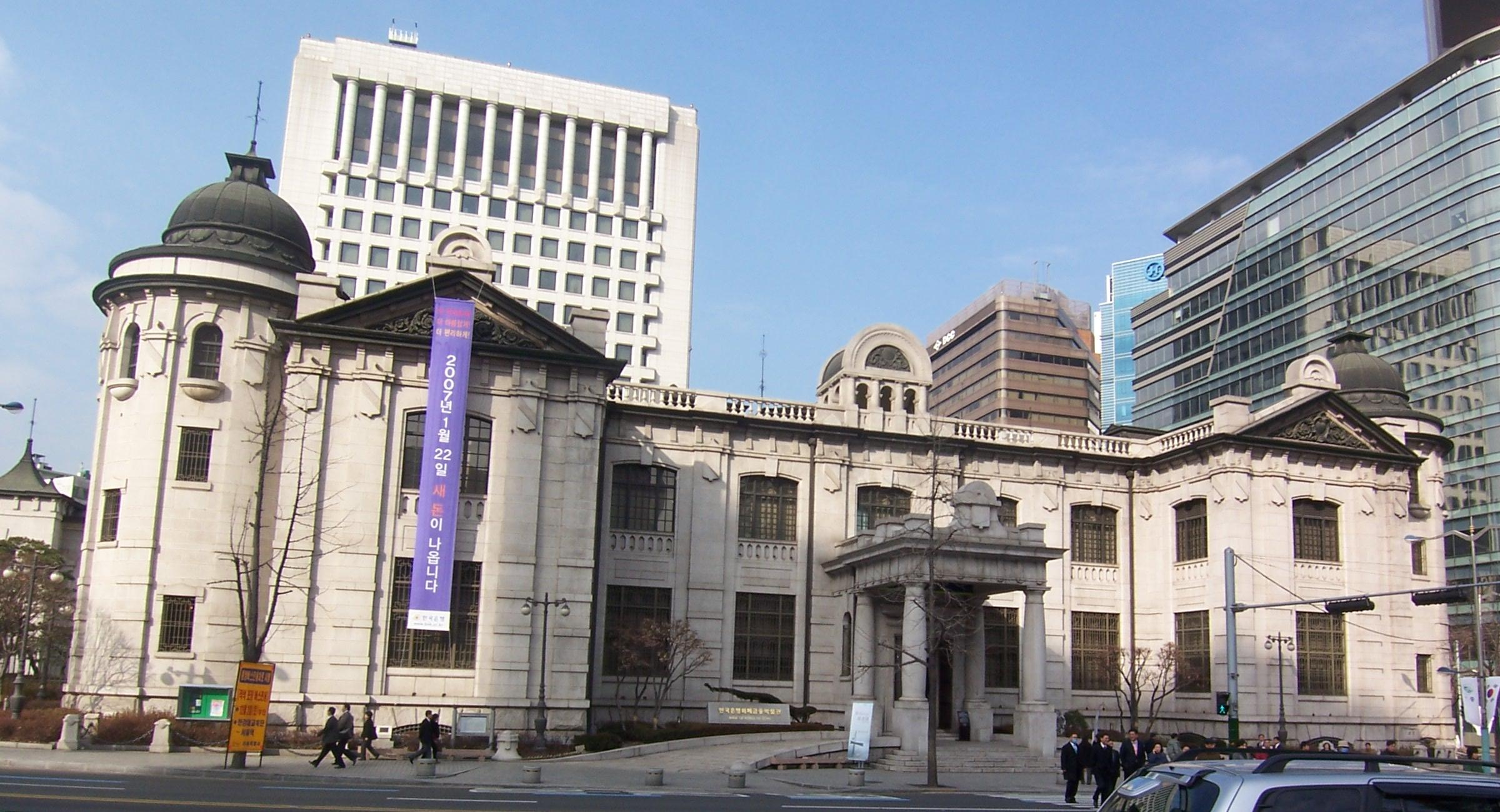 Bank of Korea in Seoul, Korea. Building completed 1912, architect: Tatsuno Kingo.